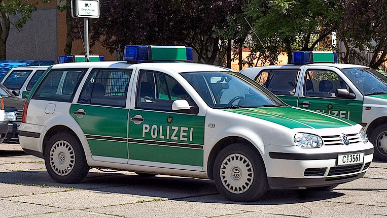 Golf IV Variant as a german Police car